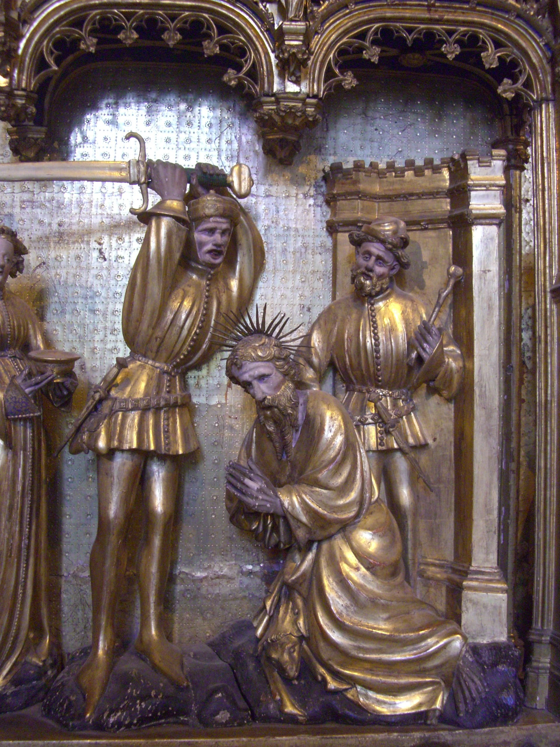 Detail from Jacques de Baerze's Saints and Martyrs altarpiece, ordered in 1390 for the Chartreuse de Champmol, near Dijon ( France), now in Dijon's city museum. The scene shows John the Baptist, (recognizable by his attribute, the lamb) about to be beheaded before Salome.